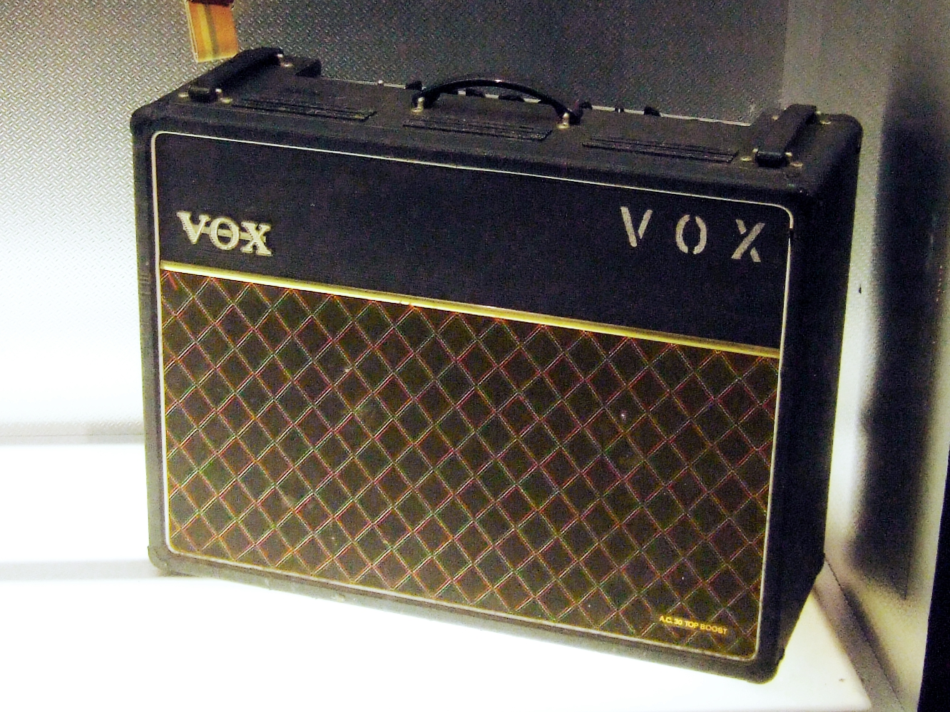 VOX AC30 Top Boost[1] (also known as “AC30 Twin Top Boost”[2]) 'Born to Rock' at Harrods References ↑ Dave Hunter (2012) "1954 Vox AC30 Top Boost" in Amped: The Illustrated History of the World's Greatest Amplifiers, Voyageur Press, pp. 126–133 ? ISBN: 978-0-7603-3972-5. ↑ Zachary R. Fjestad "ELECTRIC TUBE AMPLIFIERS: AC SERIES, EARLY MODELS (1950S-1970S)" in Blue Book of Guitar Amplifiers, Blue Book Publications, Inc.